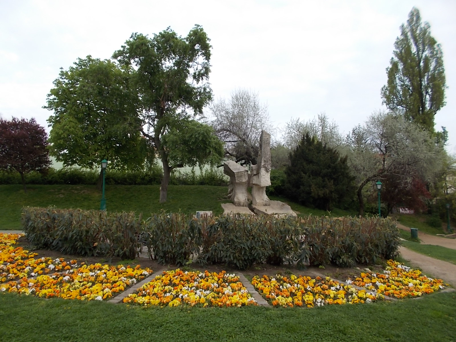 Hungarian Youth Monument (or Monument to Antifascist Students) by Gyula Illés (limestone, 1982 works, 4.8m) in the Feneketlen-tó (Bottomless lake) Park, Budapest District IX, Budapest.